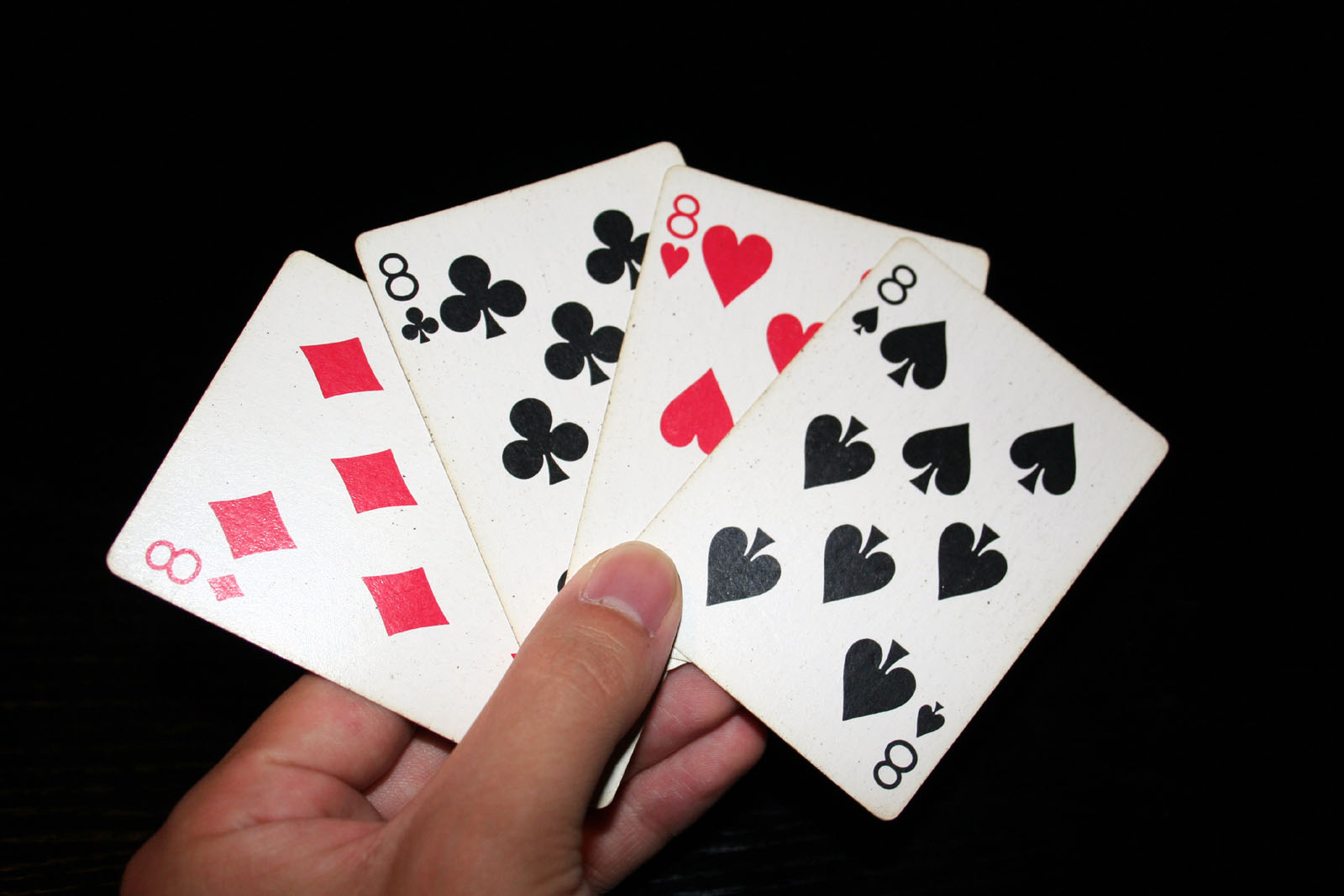 A hand holding the four 8's in a standard deck of cards: Diamonds, Clubs, Hearts, Spades.